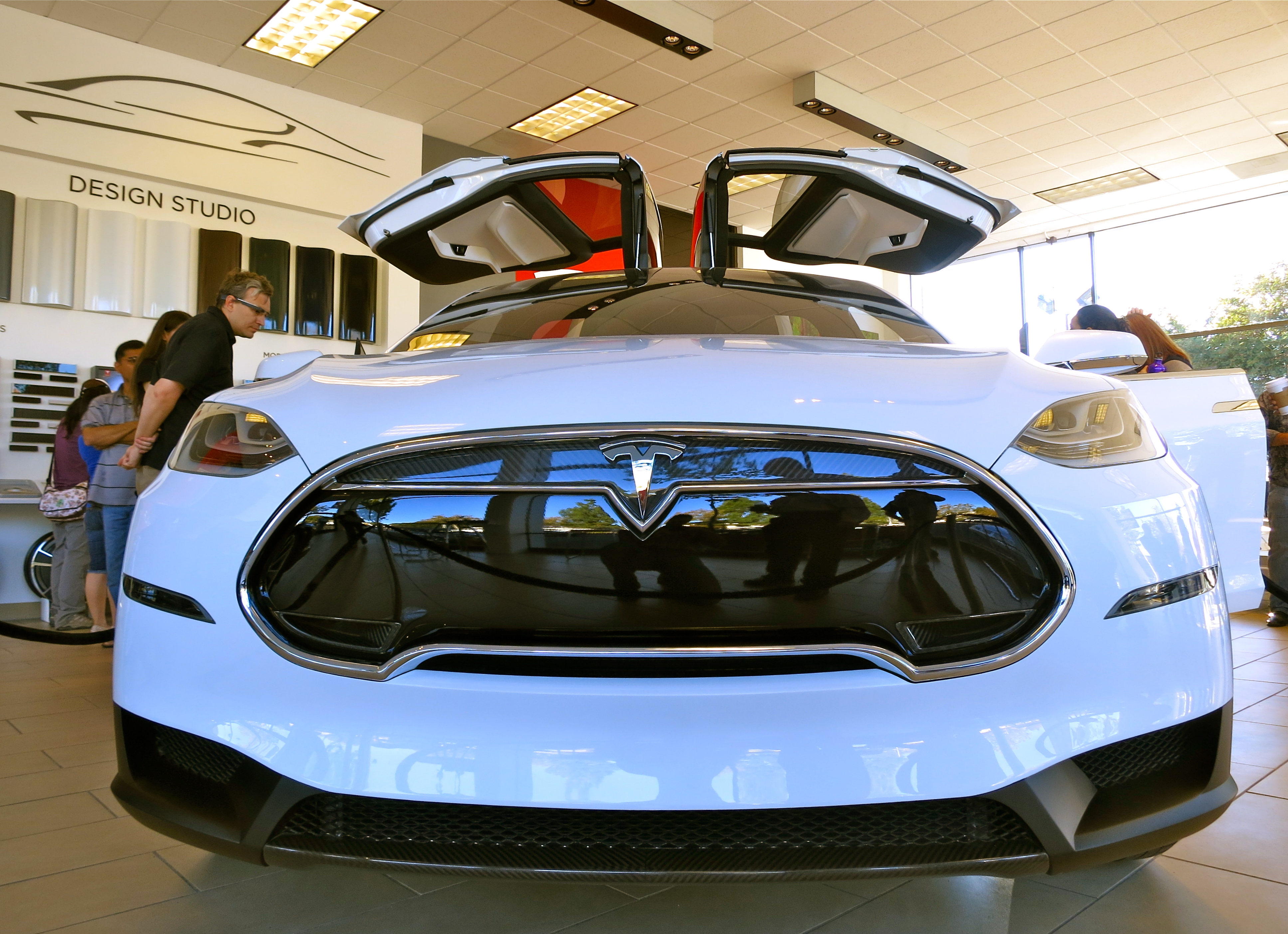 Tesla Model X Design at the opening of the Palo Alto store this weekend... under inspection by Google Glass